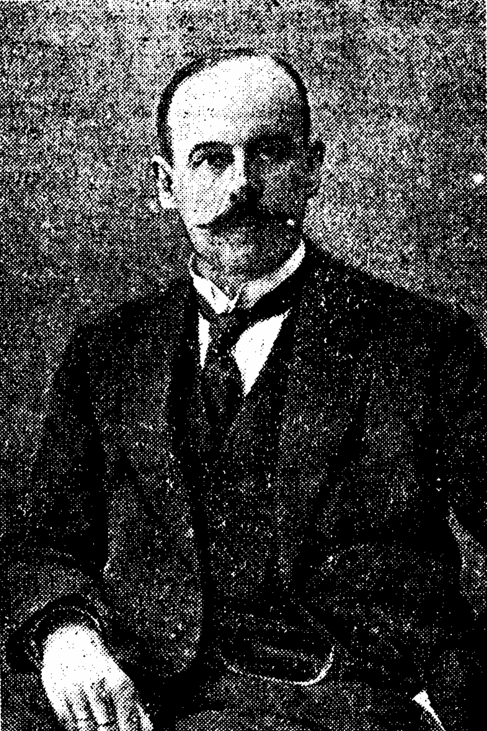 P. L. de Gaay Fortman, mayor of Bunschoten, Kidderkerk and Dordrecht